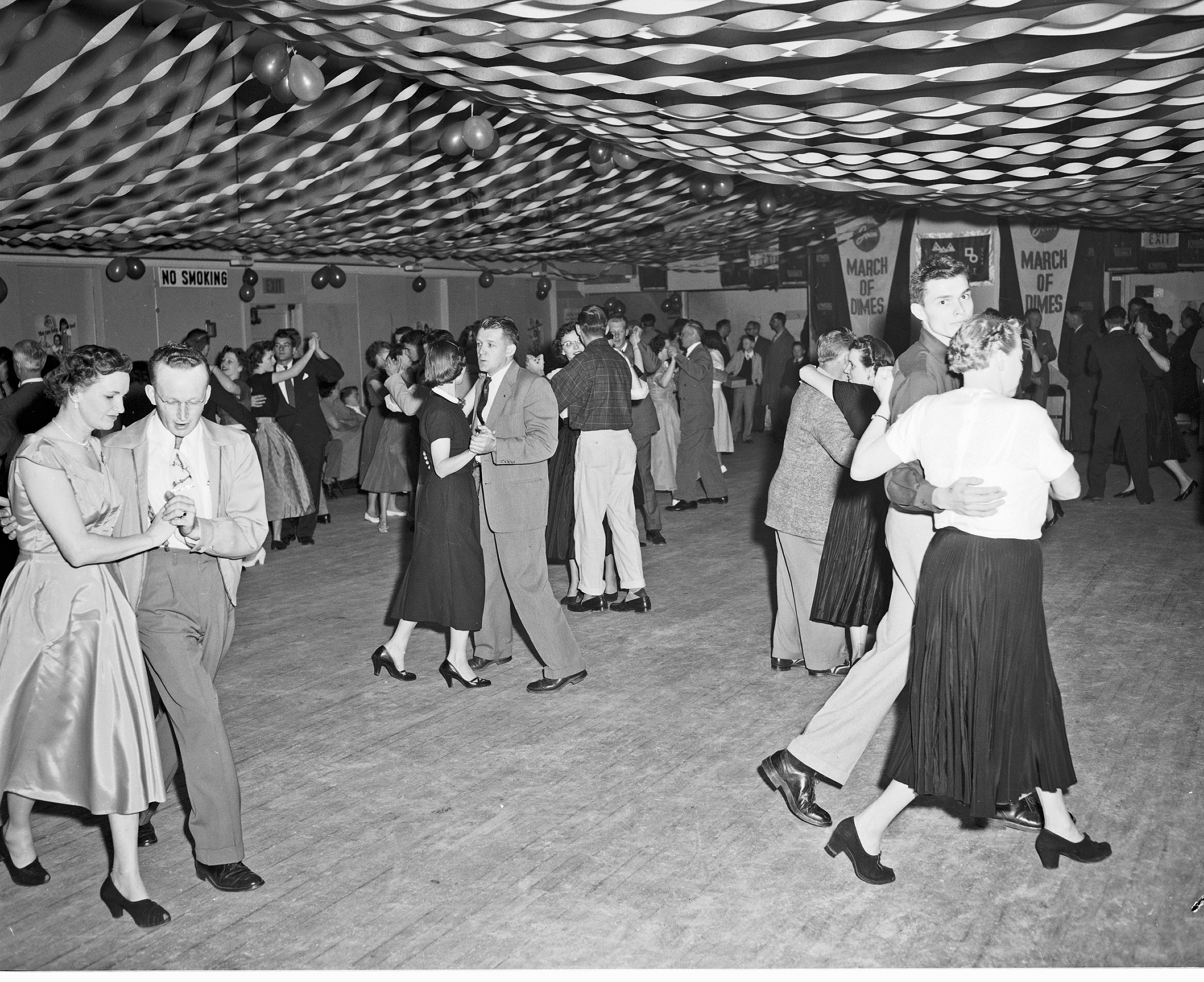 March of Dimes dance at Newhalem, Washington, USA, 1954. Newhalem is a Seattle City Light company town, so these are presumably City Light employees and their partners. Item 78354, City Light Photographic Negatives (Record Series 1204-01), [ Seattle Municipal Archives.